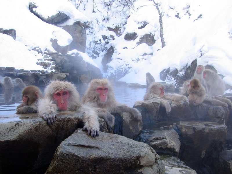 Japanese Macaques (Macaca fuscata). Jigokudani Hot Spring, Nagano Prefecture, Japan. Monkeys taking a bath in those springs are famous. Image taken in February 14, 2005.